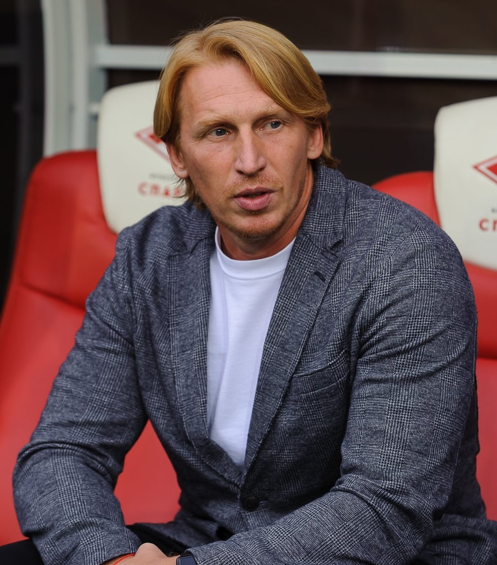 Aleksandr Tochilin head coach PFC Sochi in a game against FC Spartak Moscow